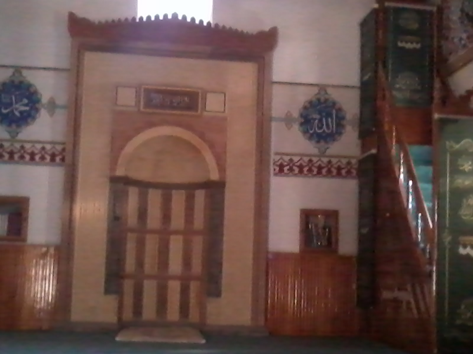 Kırşehir'de bulunmakta olan Ahi Evran Camii'nin iç bölümü, namaz kılınan yeri.